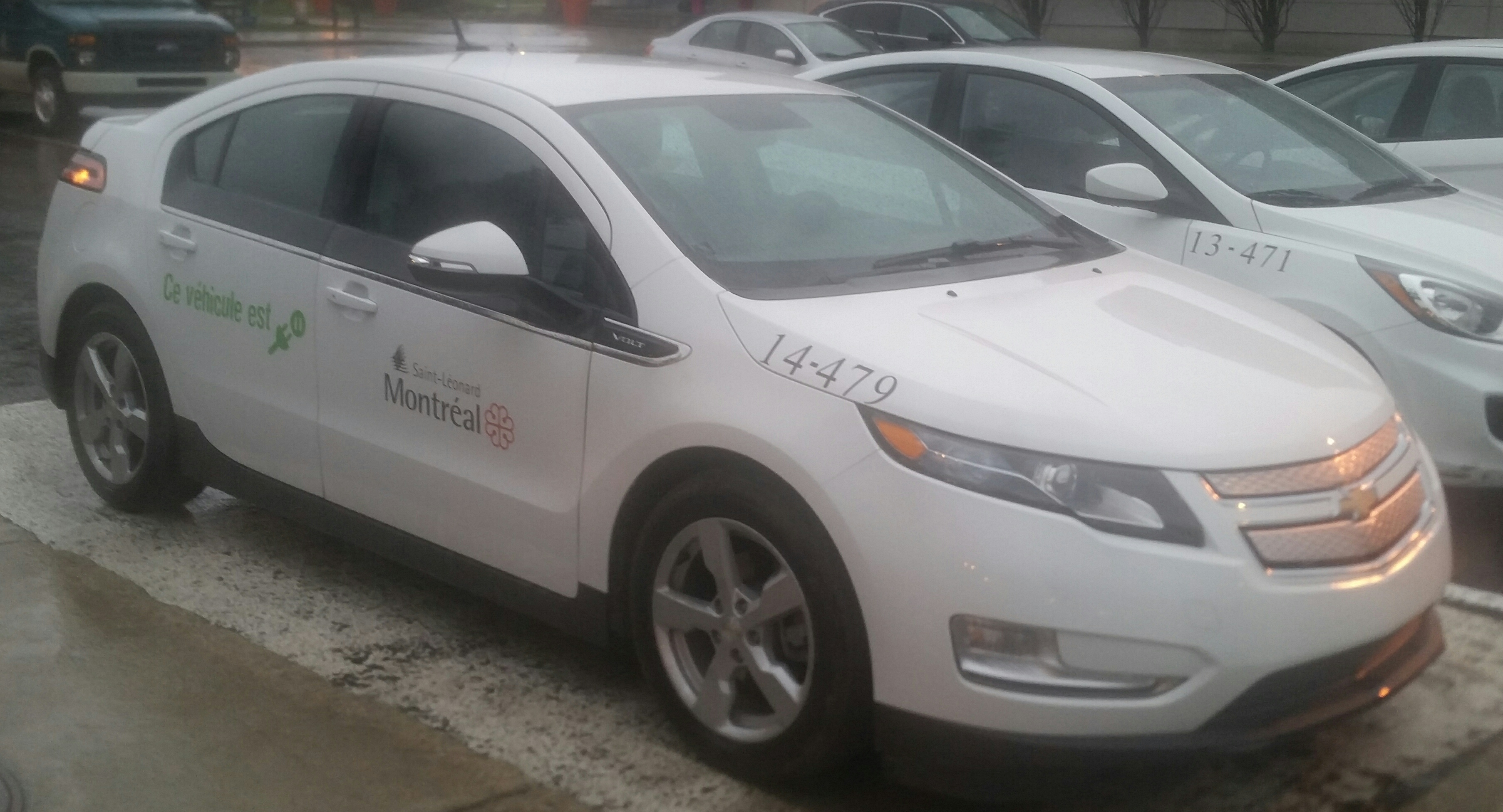 Chevrolet Volt of Montréal's St. Léonard photographed in Montréal, Québec, Canada.